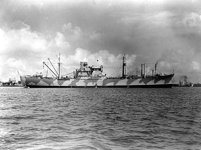 The U.S. Navy cargo ship USS Alchiba (AK-23) photographed circa early 1942. Note her camouflage Measure 12 (Modified).